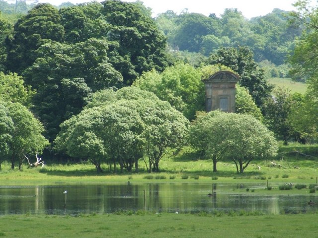 The Belhaven and Stenton Mausoleum. The photograph was taken from the Clyde Walkway, a long-distance footpath. This section is prone to flooding (compare 1605634); there is an alternative seasonal route which bypasses it. However, the pool visible in the foreground is permanent, and is shown on the map. The structure in the distance is the Belhaven and Stenton Mausoleum. It stands in an old cemetery which was associated with the ancient parish church of Cambusnethan, founded in the eighth century; the cemetery fell into disuse in the seventeenth century ( for details). The mausoleum is dedicated to Lord Belhaven and Stenton (1793-1868); for architectural and other details. Specifically, the mausoleum was created for Robert Montgomery Hamilton, 8th Lord Belhaven and Stenton (the "Mortimer" at the last-cited link seems to be a typo for "Montgomery"). He was one of the representative peers of Scotland from 1819 to 1832, and appears in the list that is given on Leigh Rayment's site: (follow the "Representative Peers – Scotland" link from that page to see the list; the term "representative peers" is explained there).